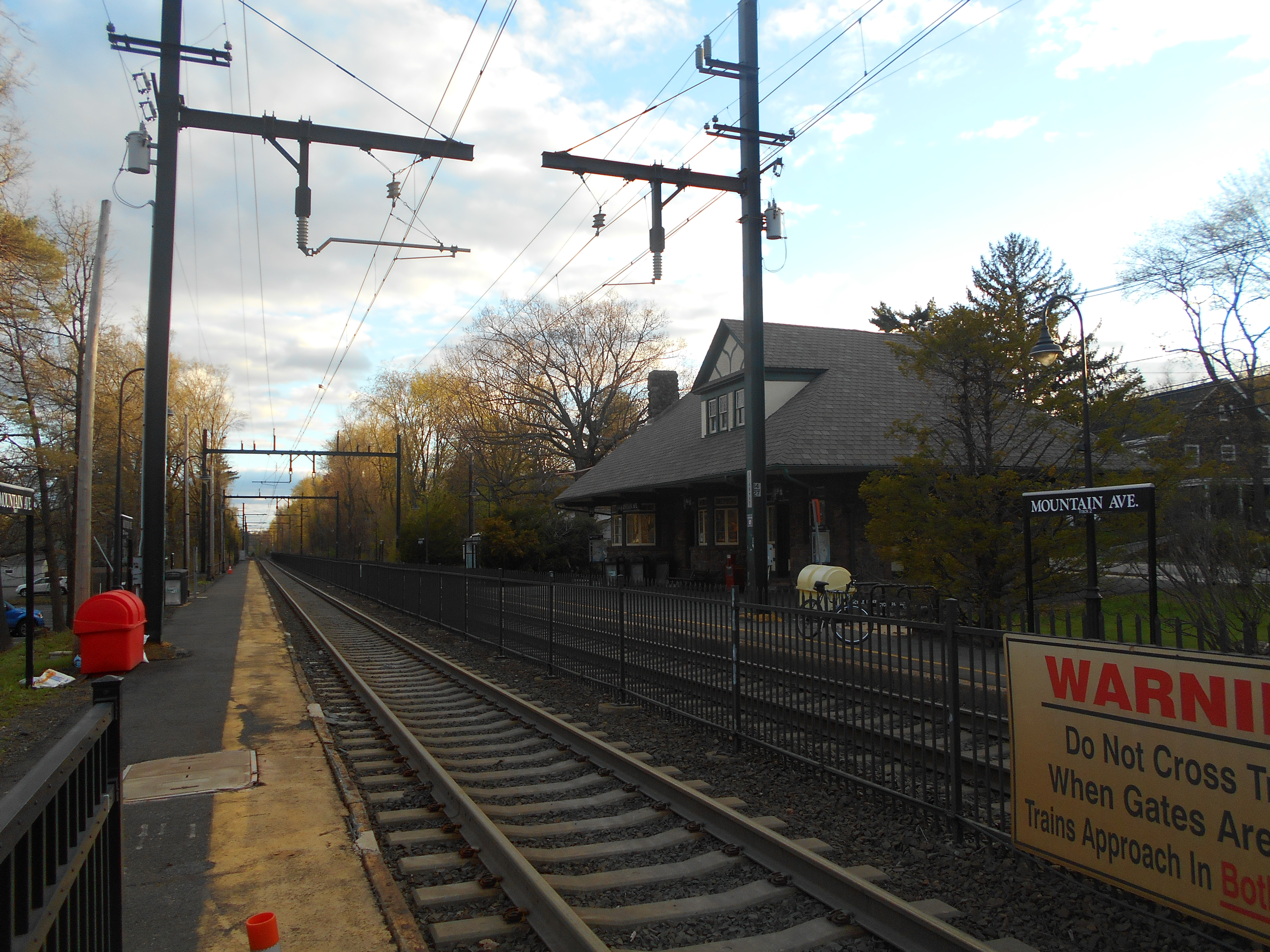 The Mountain Avenue station on New Jersey Transit's Montclair-Boonton Line in April 2014.